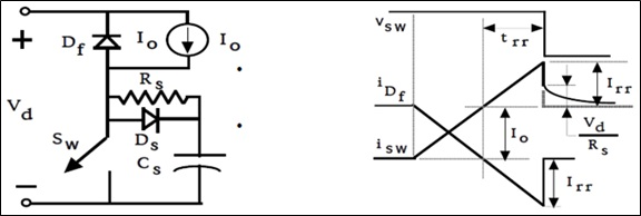 Photo00022